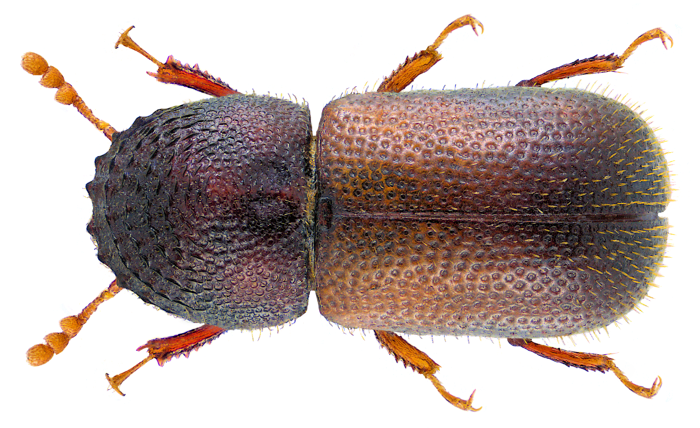 Family: Bostrichidae Size: 2.7 mm (2.5 to 3.0 mm) Distribution: Southeast Asia, South Asia, introduced to Europe with bamboo Ecology: Lives in bamboo Location: England, Winnington leg.det. B.Tomlin; ex J.Walker bequest, 1939 Coll. Oxford University Museum of Natural History Photo: U.Schmidt, 2016